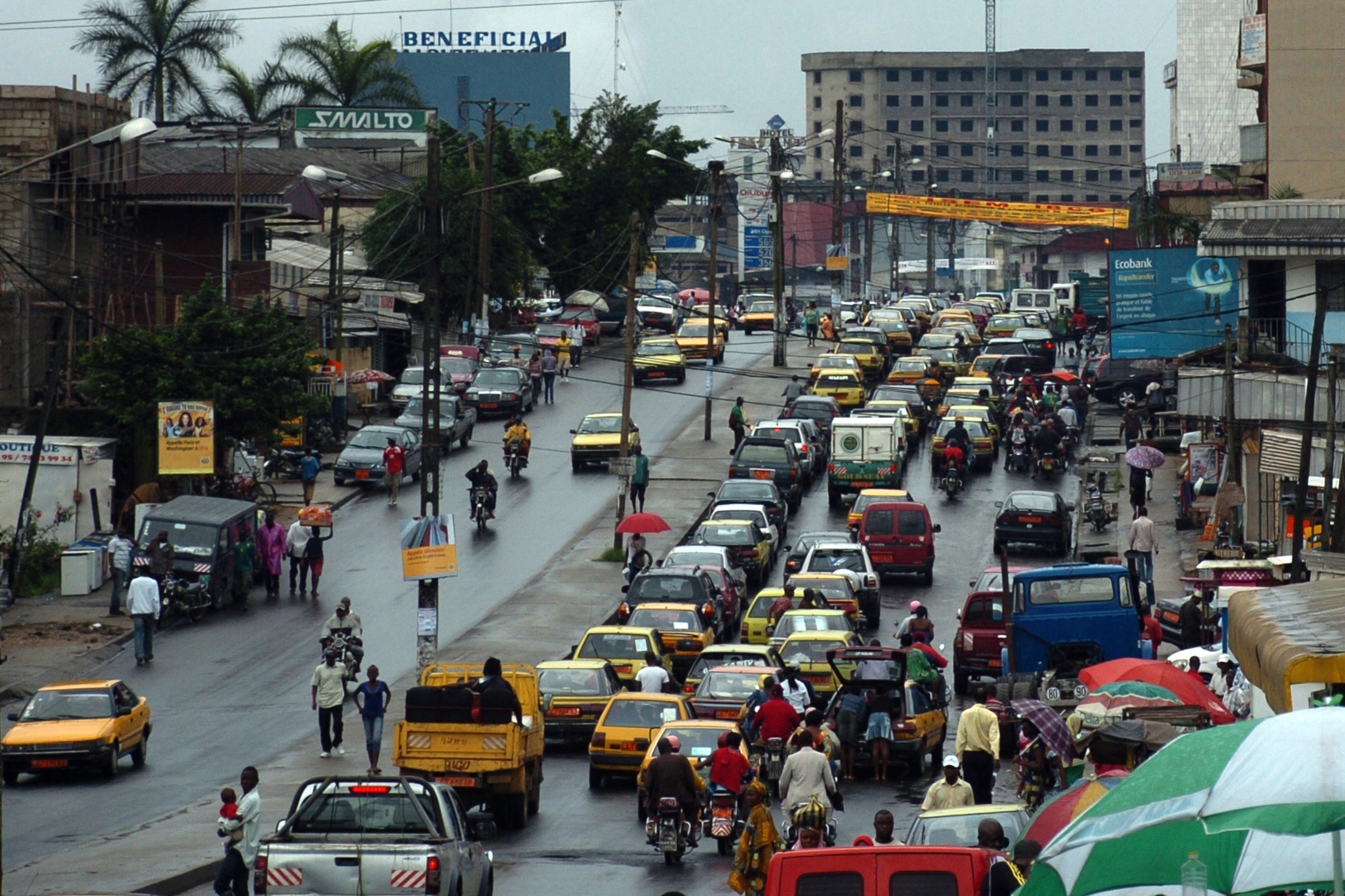 Embouteillage de voitures a la vallée Béssengué a une heure de pointe a cause de l’exiguïté de la chaussée avec une conséquence sur la pollution de l’environnement This is an image with the theme "Africa on the Move or Transport" from: Cameroon